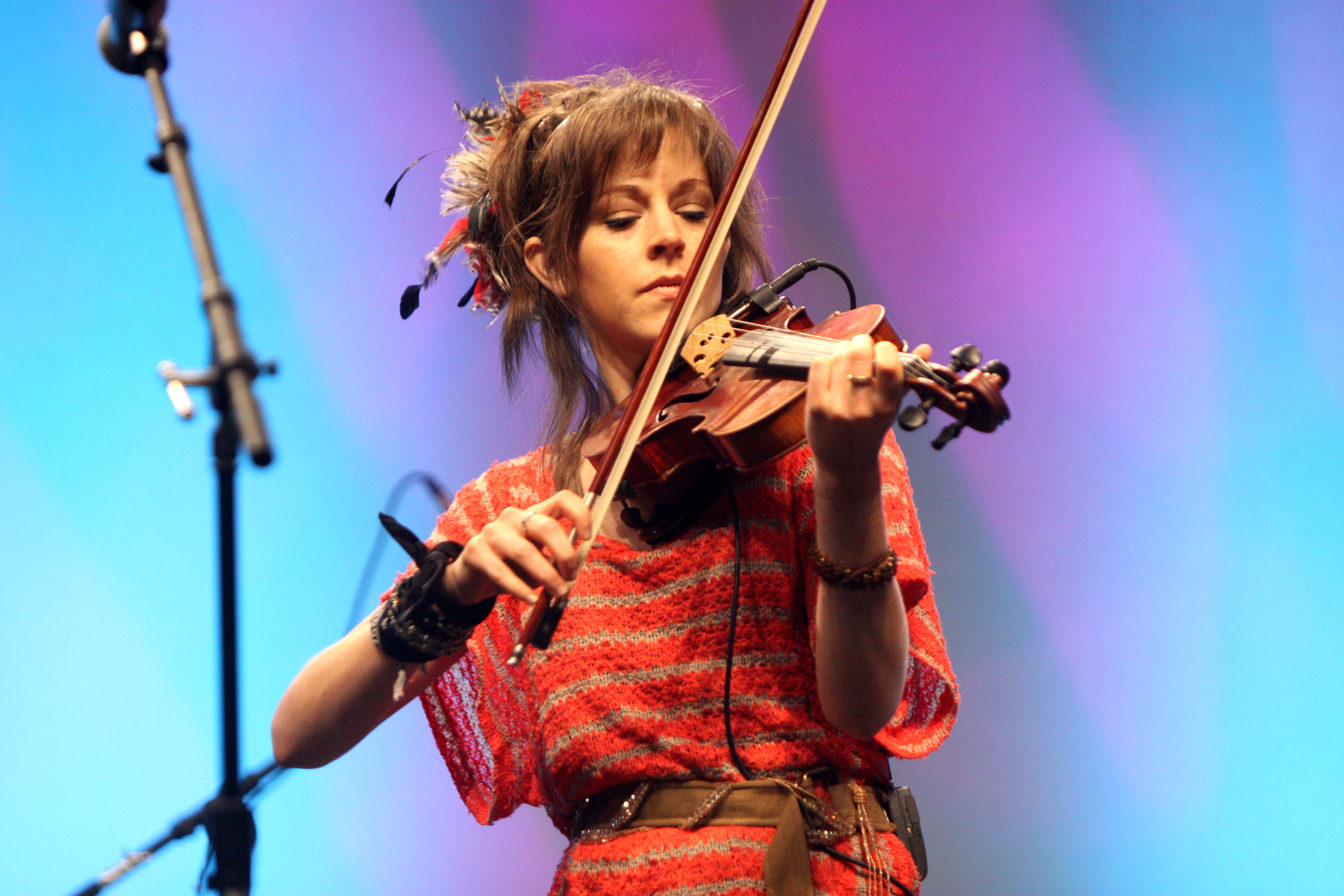 Lindsey Stirling performing at VidCon 2012 at the Anaheim Convention Center in Anaheim, California.